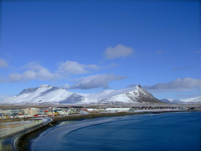 Langisandur in Akranes Iceland